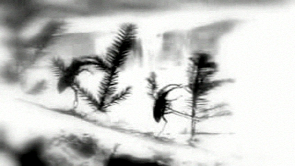 Screenshot from stop motion movie Rozhdestvo obitateley lesa Director: Wladyslaw Starewicz [1] Runtime 7 min Sound Silent Color Black and White (tinted) Ratio 1.33 : 1 Negative Format 35 mm Production Companies Khanzhonkov